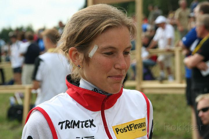 Simone Niggli-Luder at the World Orienteering Championships 2006 in Aarhus, Denmark.